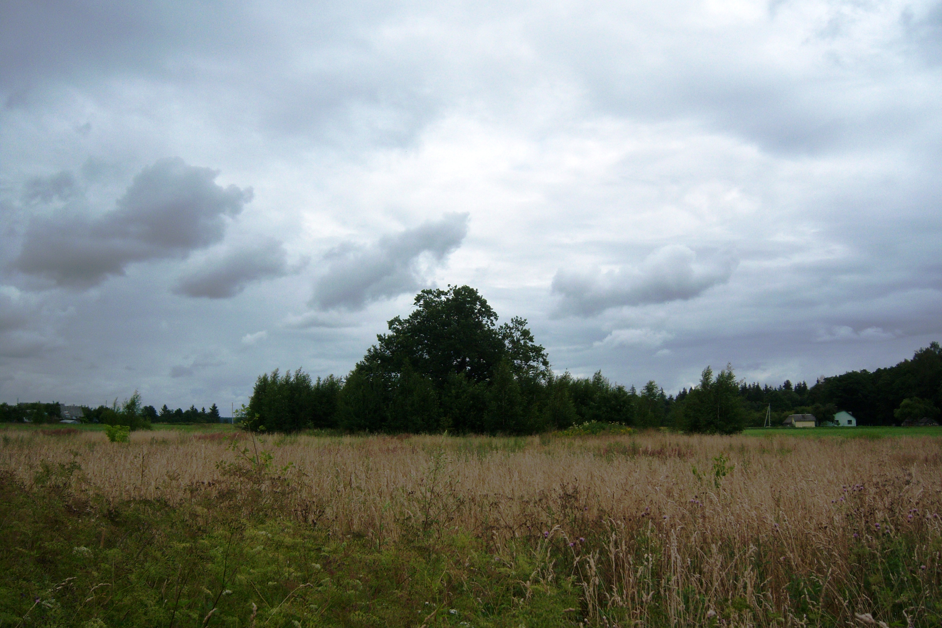 Karvelių oak by Pypliai village, Kaunas district, Lithuania